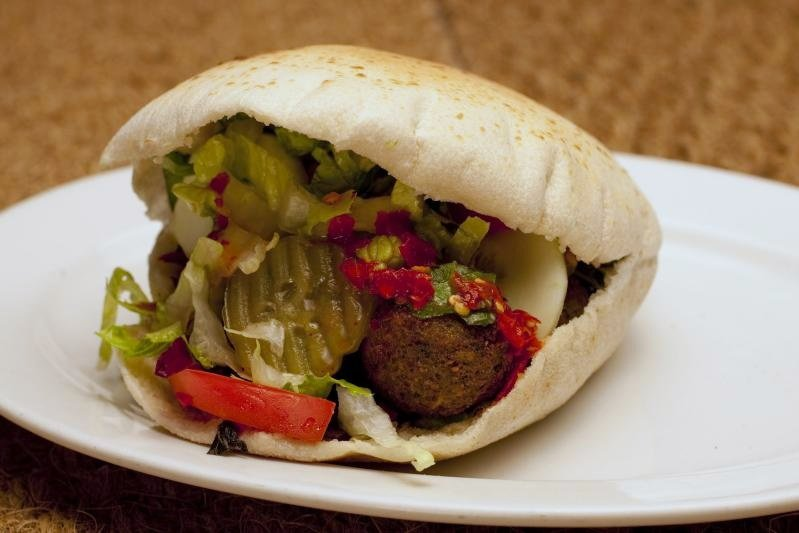 Falafel at Golden Falafel restaurant in California.